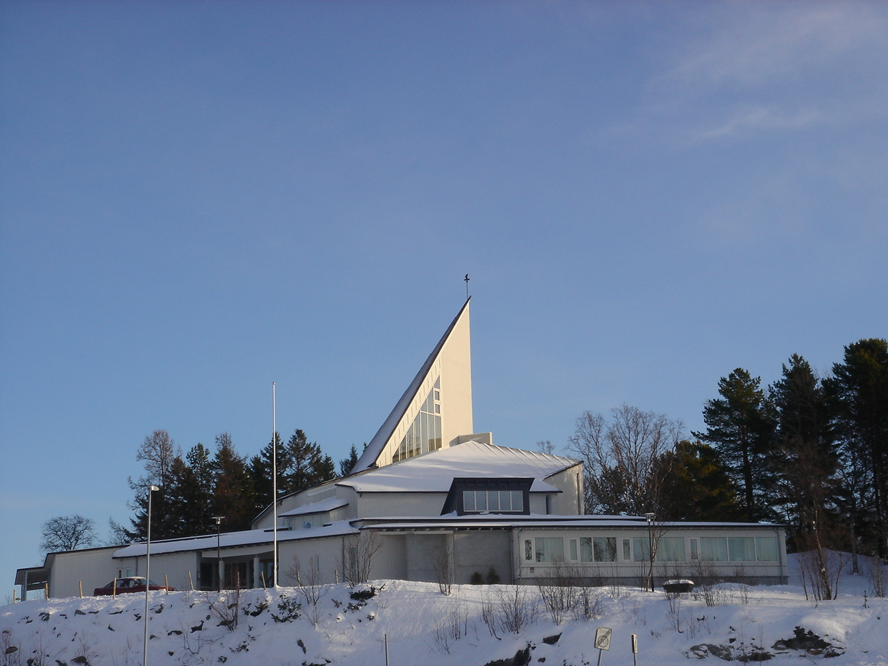 Kanebogen Church in Harstad, Norway Norsk (bokmål): Kanebogen kirke i Harstad